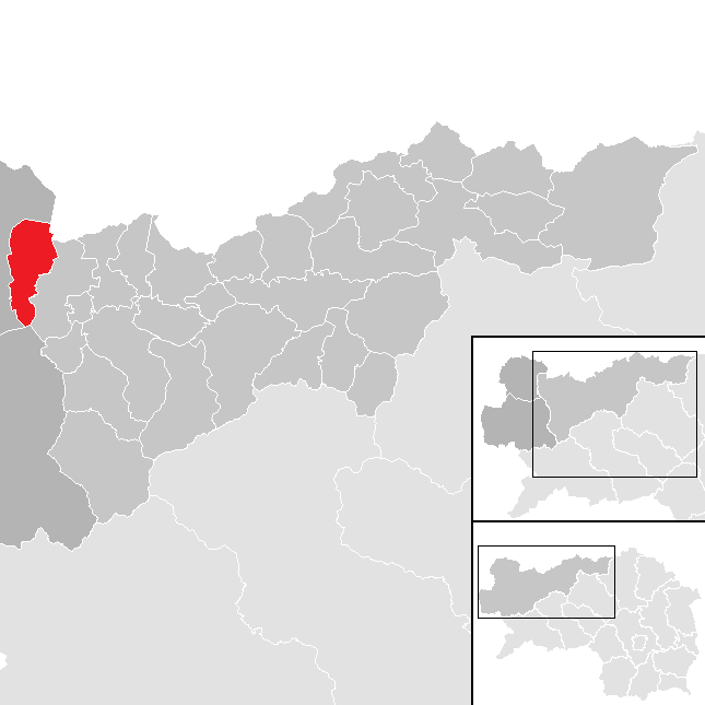 Municipality Tauplitz in District Liezen